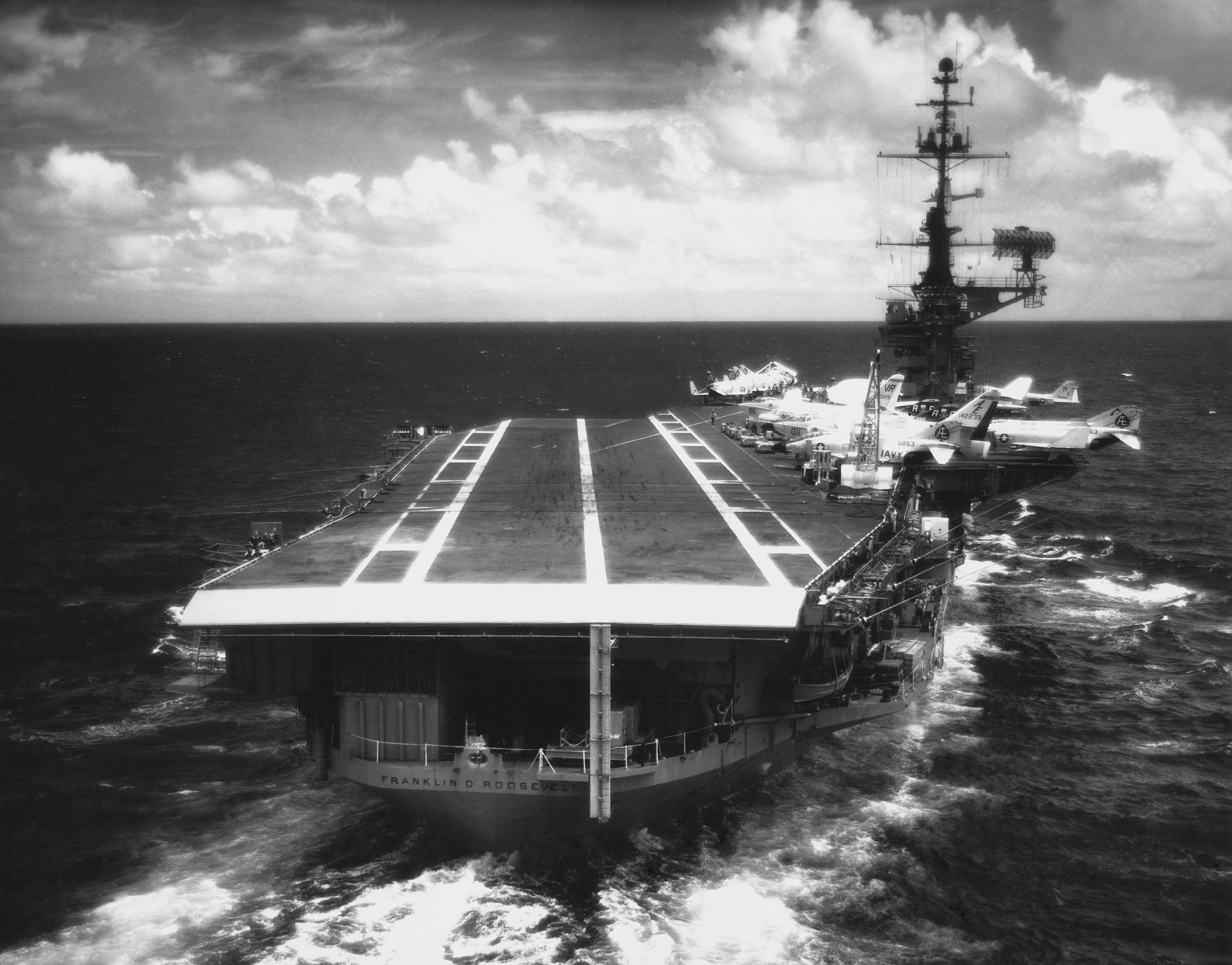 View of the stern of the U.S. Navy aircraft carrier USS Franklin D. Roosevelt (CVA-42)as an approaching aircraft would see it while underway in the Mediterranean Sea. The exact date is unknown. It was taken between 2 January 1970 through 16 July 1975 when Attack Carrier Air Wing 6 (CVW-6) was embarked. The photo seems to be from the early 1970s, when the following squadrons were assigend to CVW-6: VF-41 "Black Aces" (McDonnell Douglas F-4J Phantom II), VF-84 "Jolly Rogers" (F-4J), VA-15 "Valions" (LTV A-7B Corsair II), VA-87 "Golden Warriors" (A-7B), VA-176 "Thunderbolts" (Grumman A-6A Intruder), VFP-63 Det.42 "Eyes of the Fleet" (Vought RF-8G Crusader), VAW-121 Det.42 "Griffins" (Grumman E-1B Tracer), VAQ-130 Det. 42 "Zappers" (Douglas EKA-3B Skywarrior), and HC-2 DET.42 "Fleet Angels" (Kaman UH-2A/B Seasprite).